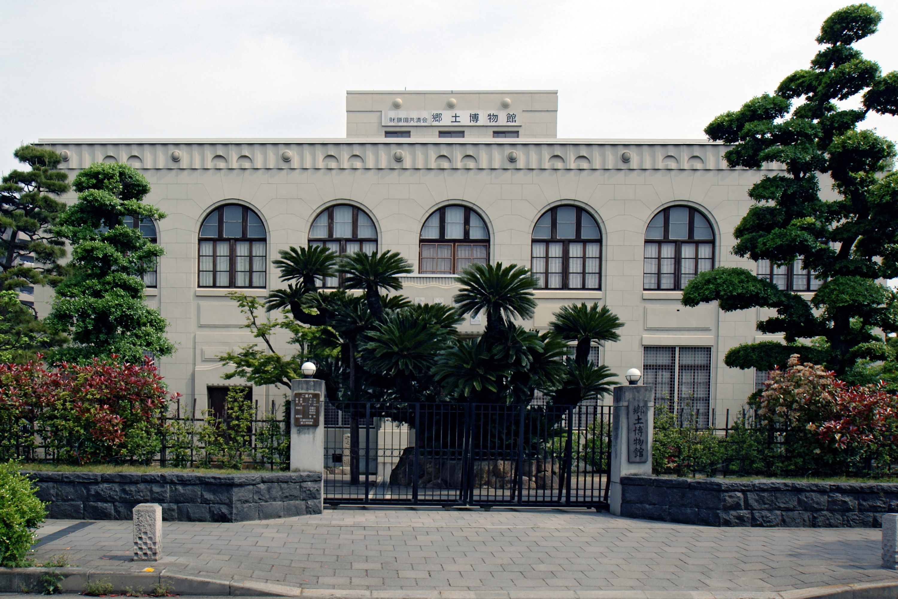 Kamada Benefit Society Museum_of Local History in Sakaide, Kagawa prefecture, Japan